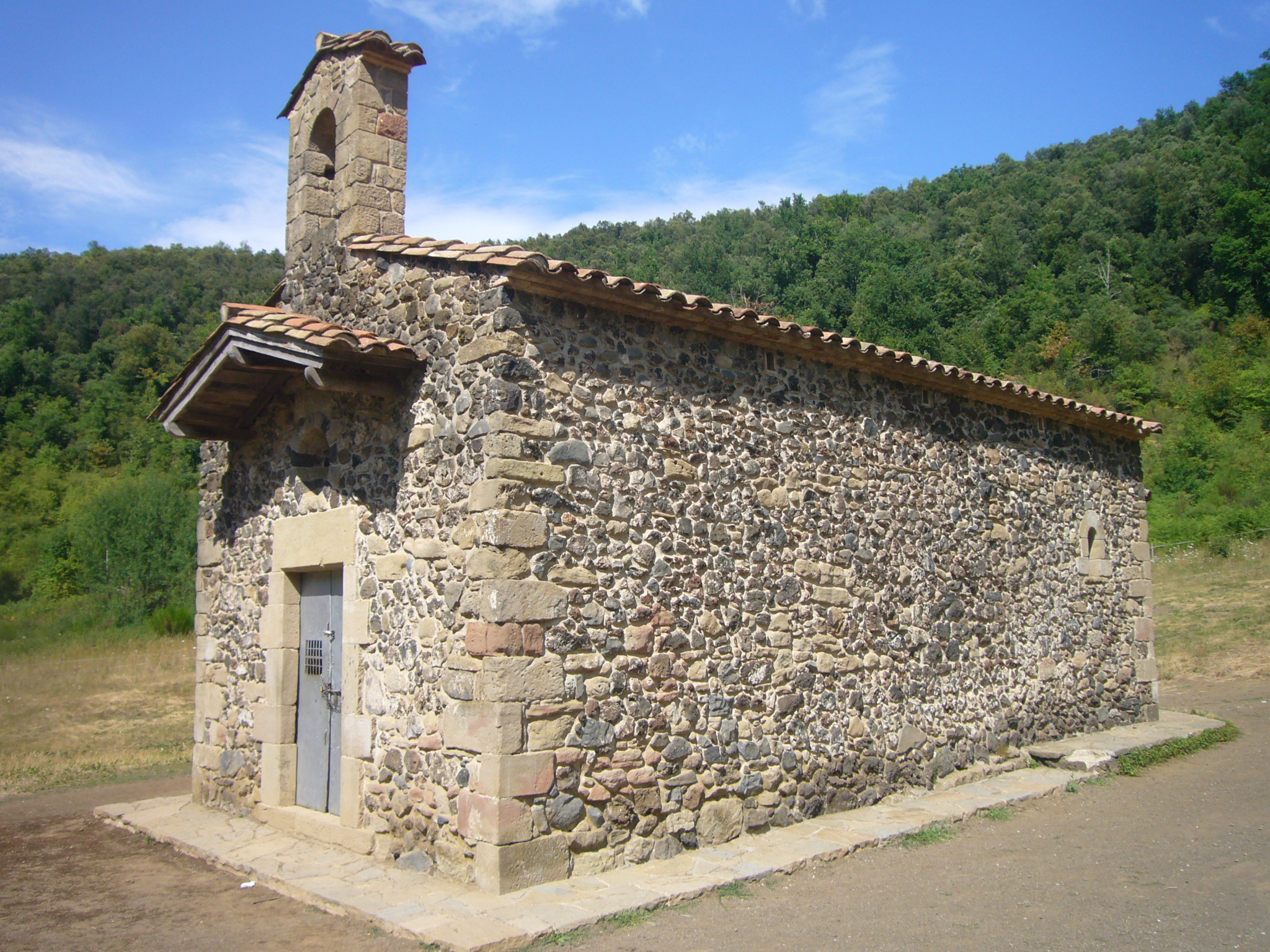 Santa Margarida de Sacot